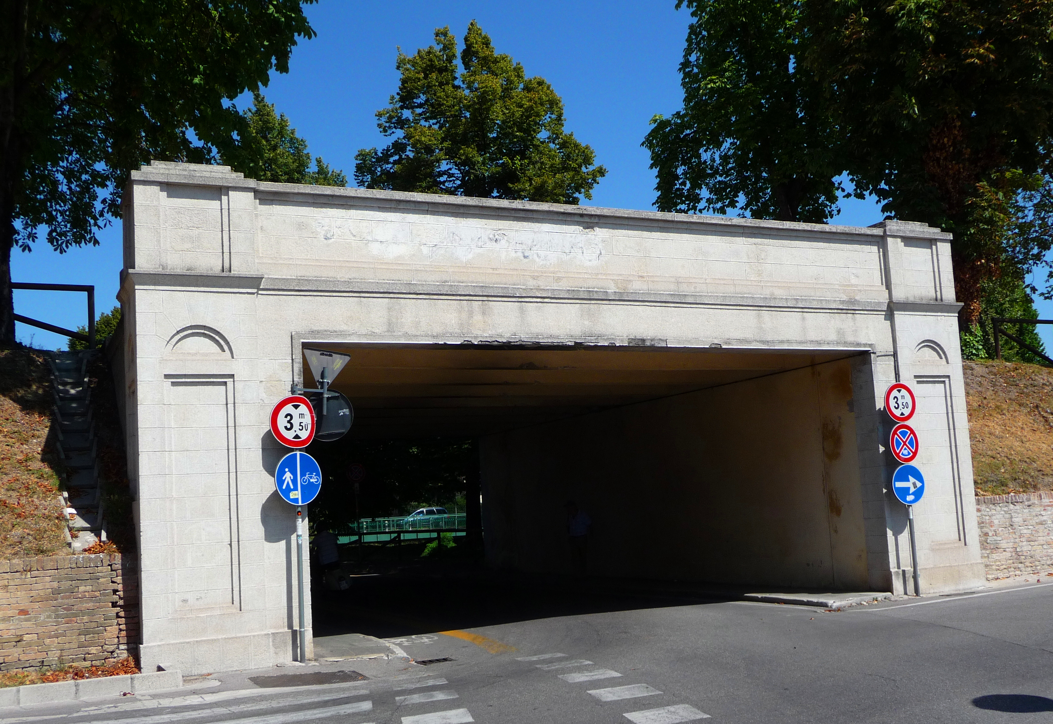 Varco Filippini in Treviso